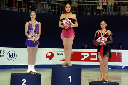 The ladies podium at the 2008 Four Continents Championships. From left: Joannie Rochette (2nd), Mao Asada (1st), Miki Ando (3rd)